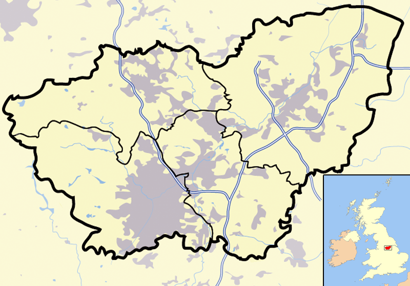 Map of South Yorkshire and surrounding area, with micromap of the British Isles for context. Urban areas are shown in grey, water bodies in light-blue, motorways in blue with white stripe and county and borough boundaries in black.